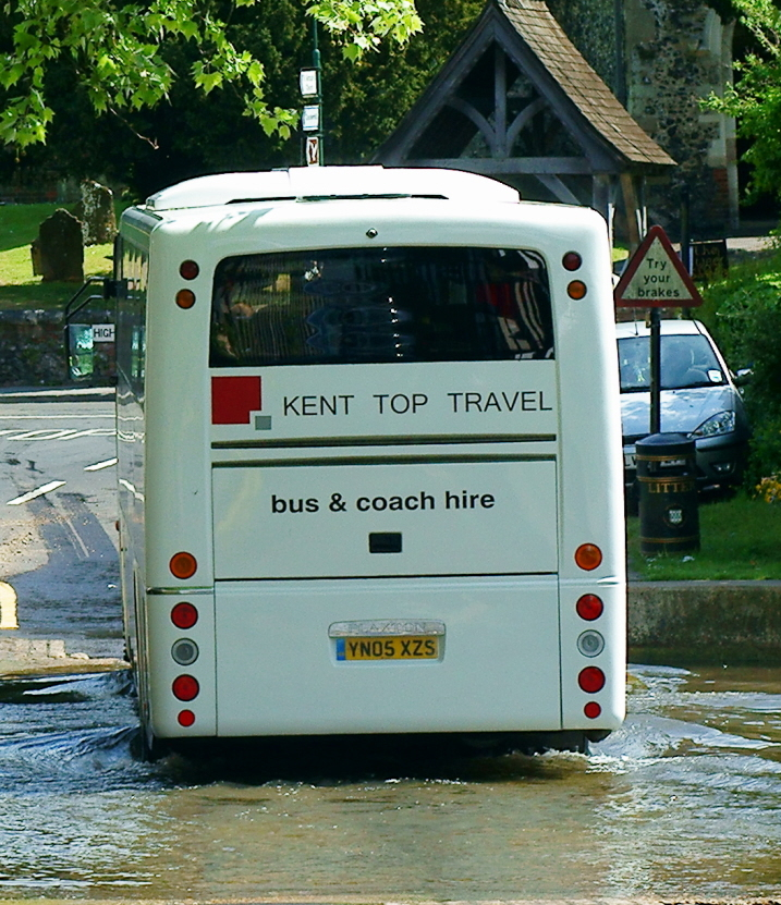 Kent Top Travel coach (reg. YN05 XZS), a 2005 Volvo B7R single-decker with Plaxton Profile bodywork, pictured crossing the River Darent in Eynsford, Kent.